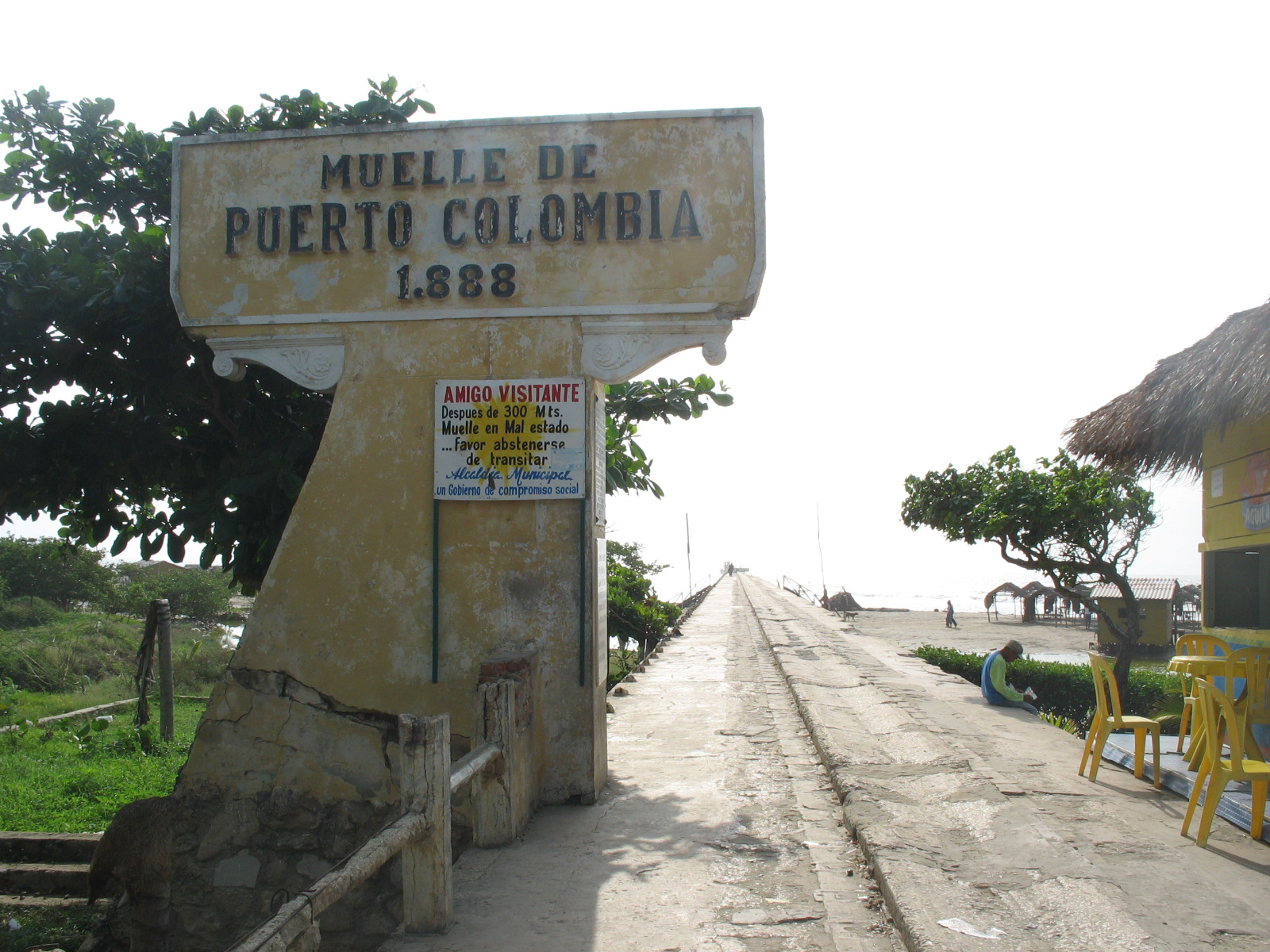 Puerto Colombia pier